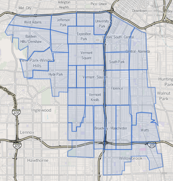 Map of the South Los Angeles region of the City of Los Angeles, California. Showing/identifying the city neighborhoods within South L.A.